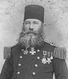 Ottoman admiral uniform. Image dates before 1923. Pictured Hüseyin Hüsnü Pasha.